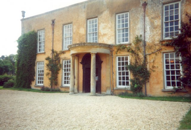 Luckington Court, Luckington, Wiltshire